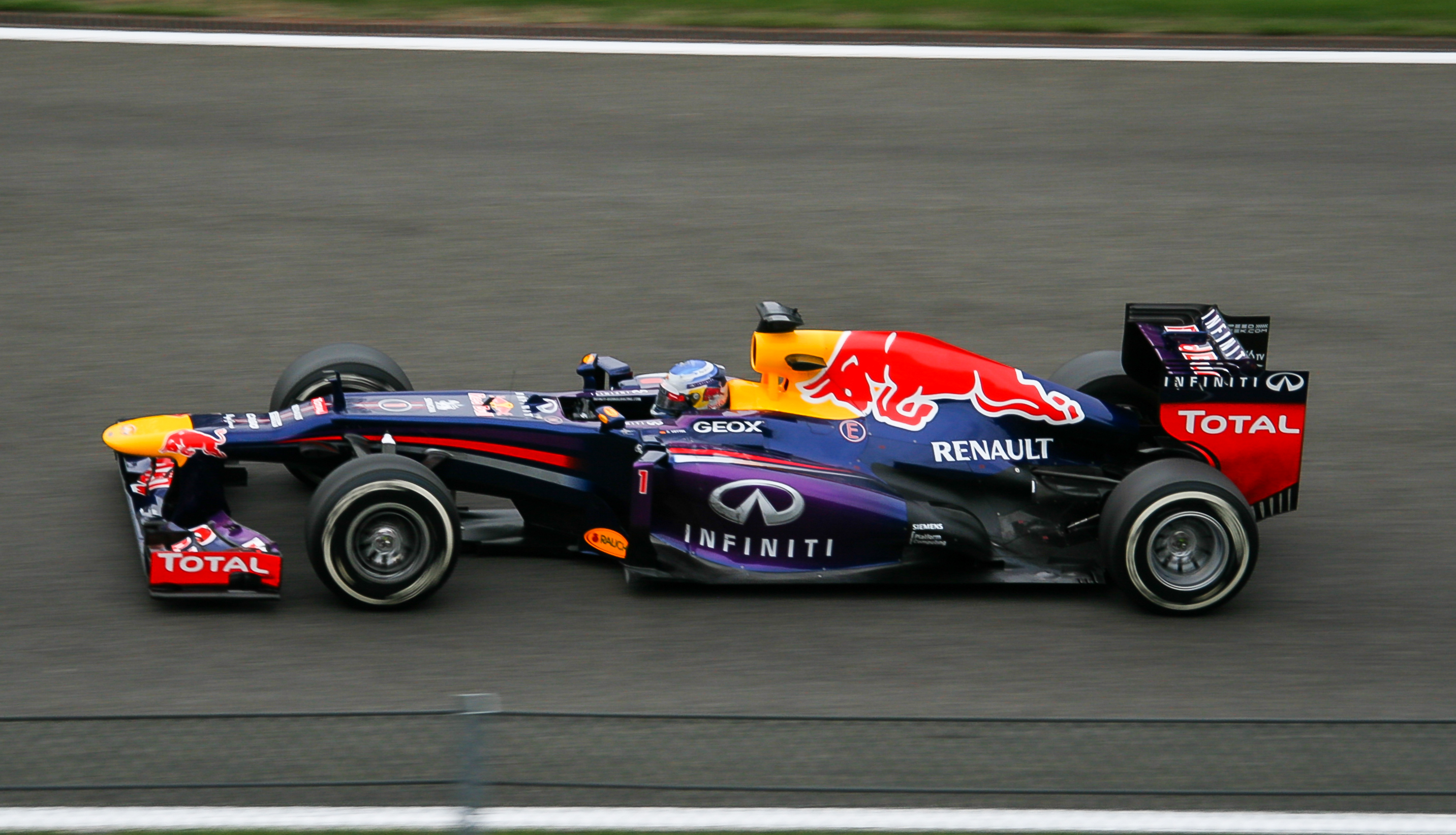 Sebastian Vettel leads the Belgian Grand Prix.